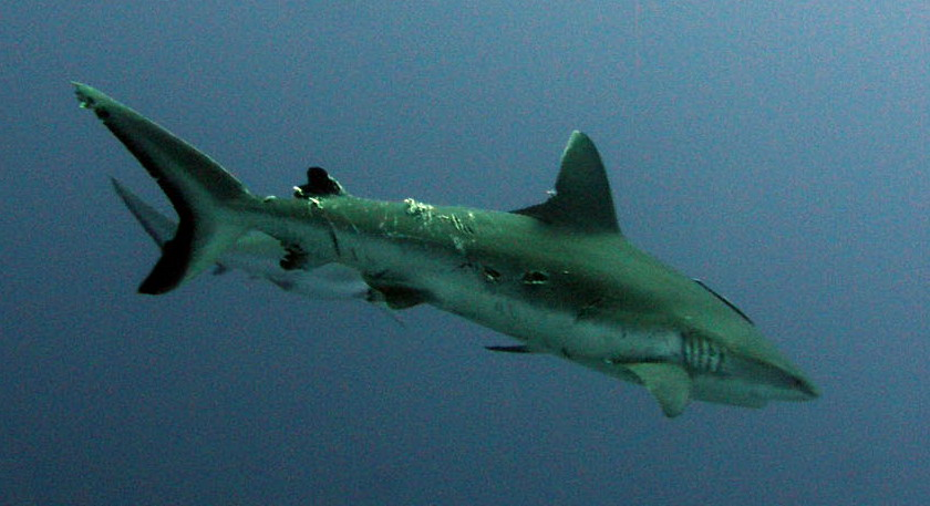 Picture of an Grey reef shark, taken October 2009 at Little Brother, Red Sea, Egypt